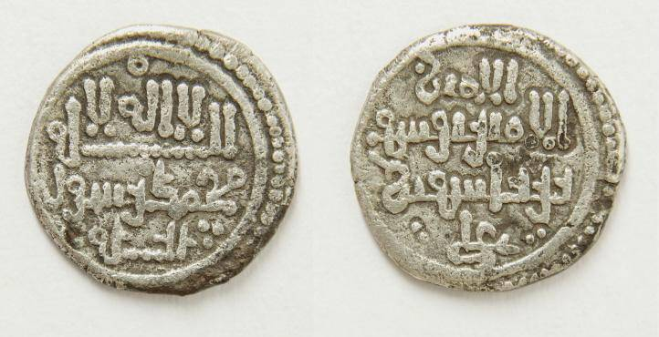 Coin of Almoravid King Yusef ibn Tashfin (1061-1106)